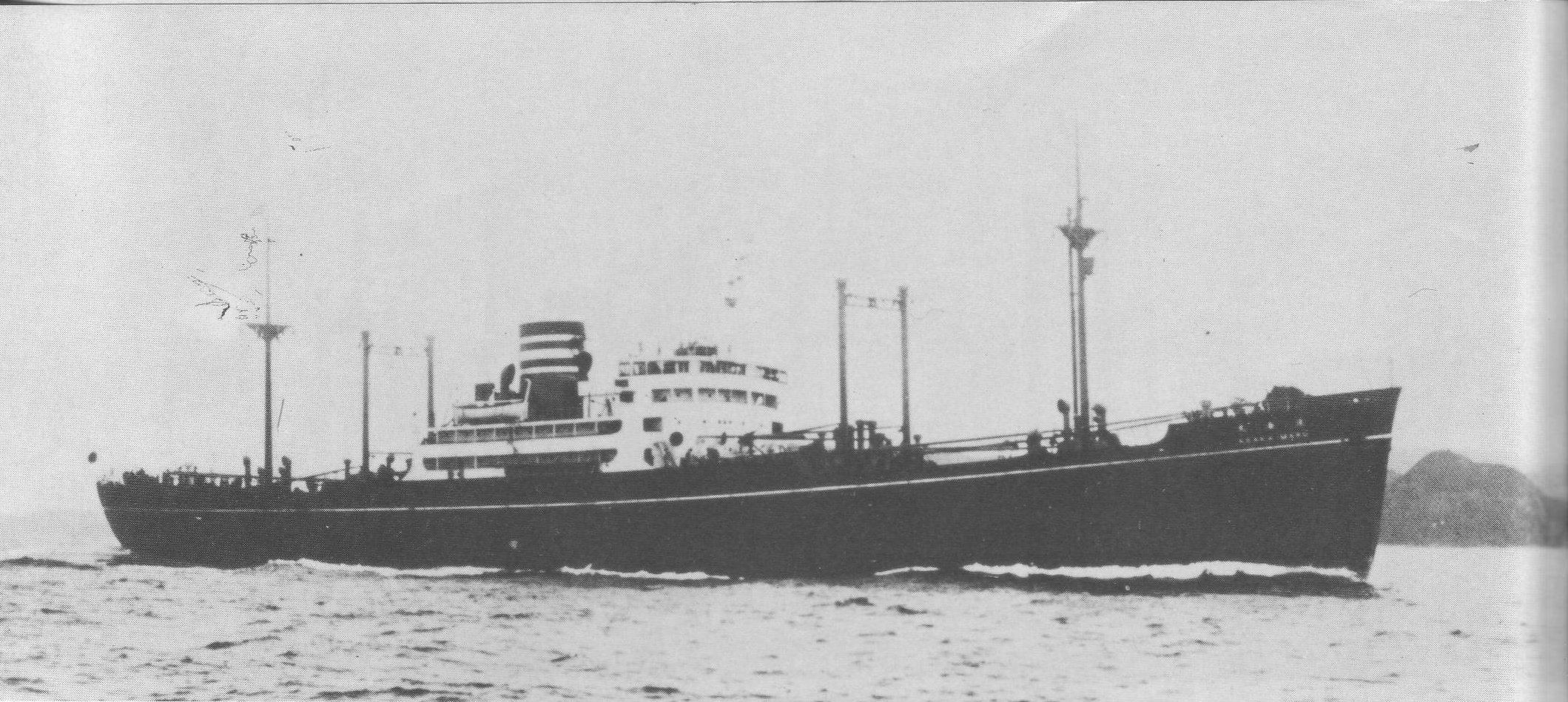 NYK Line "Asaka Maru"